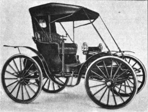 The image is of a 1909 Reliable-Dayton automobile from an article on page 263 of The American Blacksmith - A Practical Guide to Blacksmithing and Wagonmaking. Vol 8 number 11 August 1909